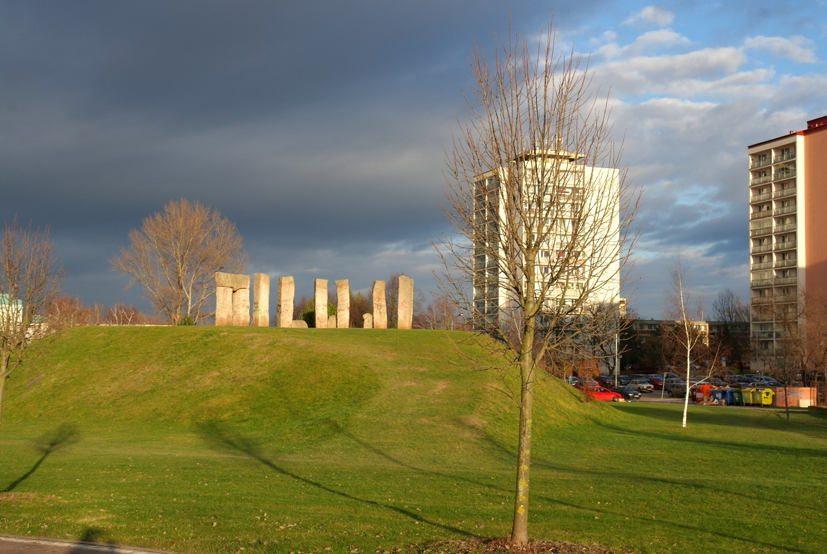 Stone inscription MILUJI (enː I LOVE), Mánesova and Dr. E. Beneš streets, Neratovice, Mělník District. Sandstone monument by sculptor Lenka Klodová. It stands on an artificial hill from December 1 st., 2001. The letters are about 2.5 meters tall.